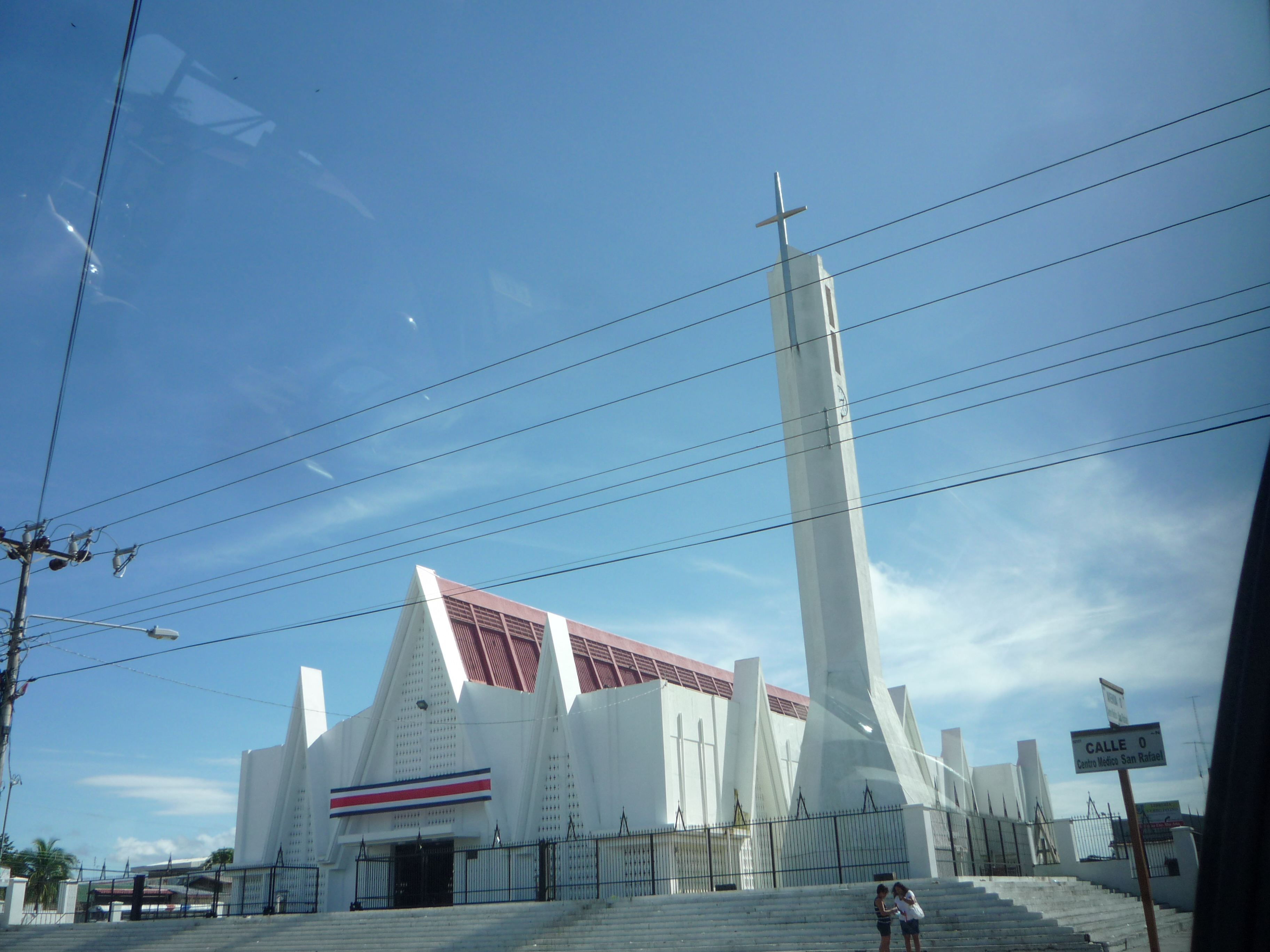 Iglesia Inmaculada Concepcion de Maria (also called Iglesia Central de Liberia) in the Central Plaza of Liberia, Costa Rica.